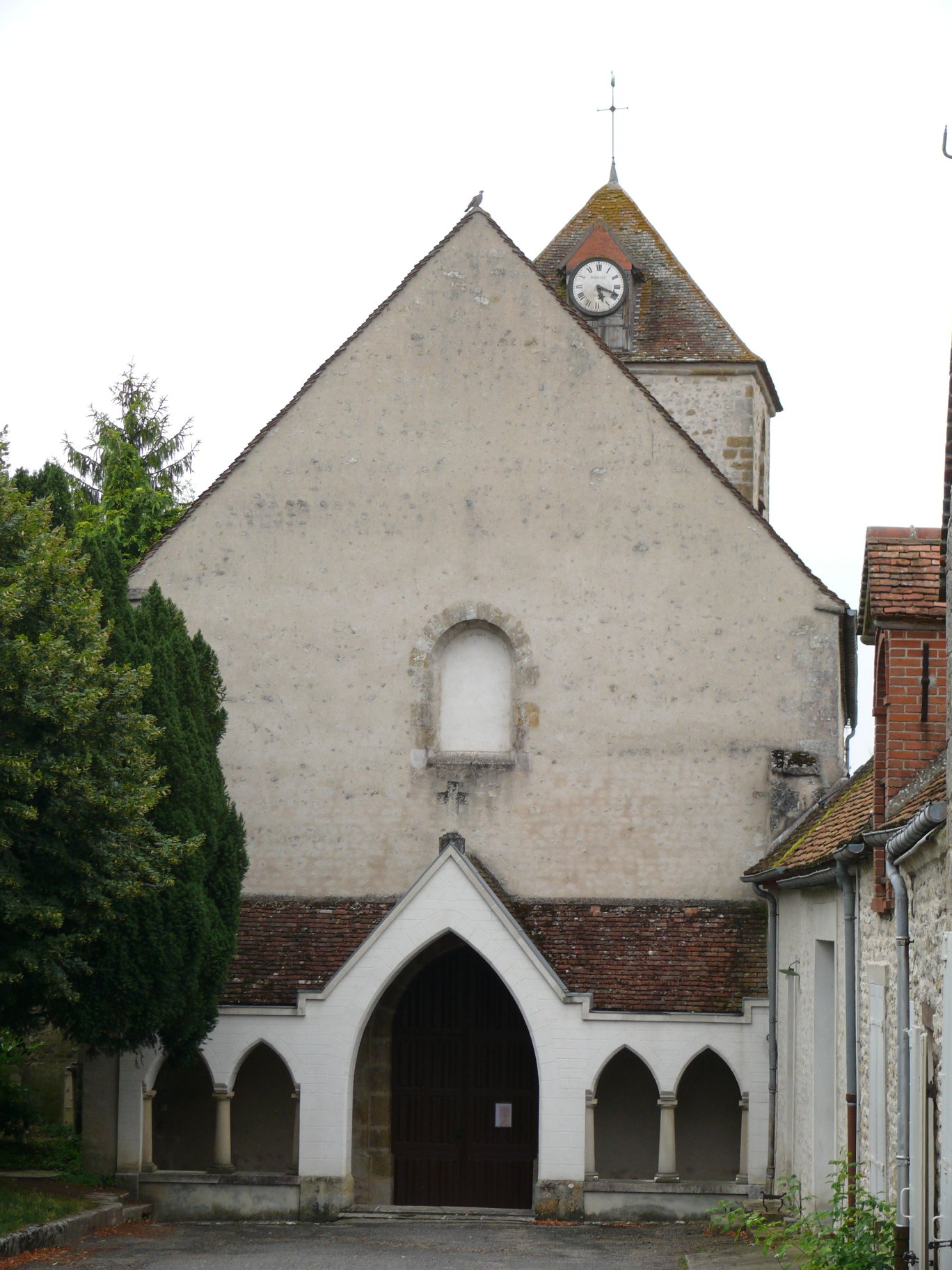 Saint-Brigide's church of Yèvre-la-Ville (Loiret, Centre, France).